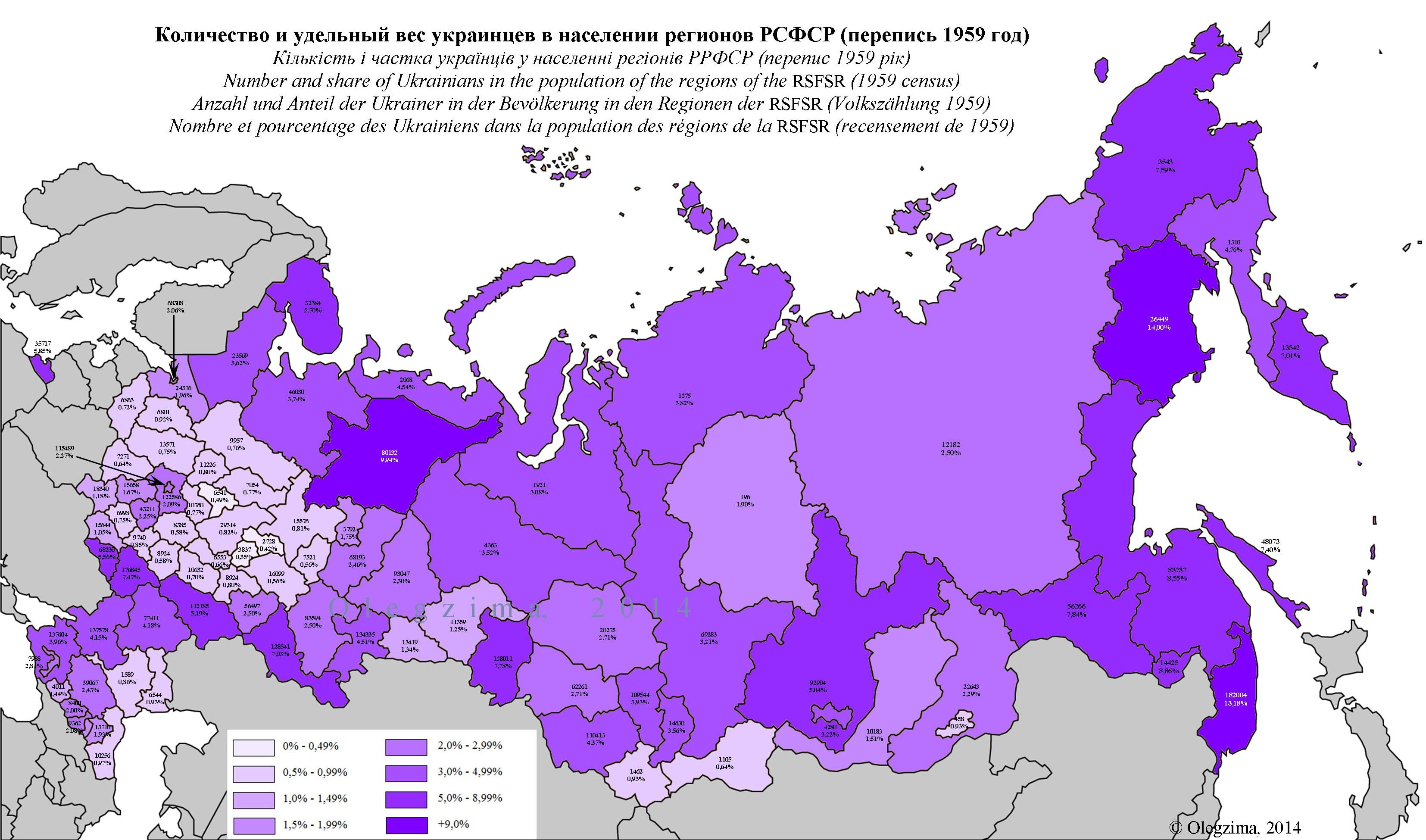 Number and share of Ukrainians in the population of the regions of the RSFSR (1959 census)